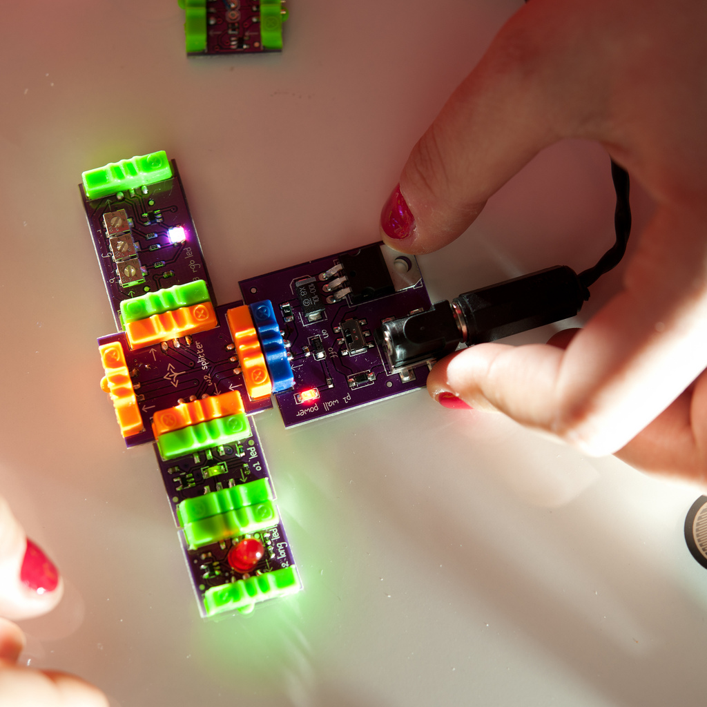 A littleBits combination